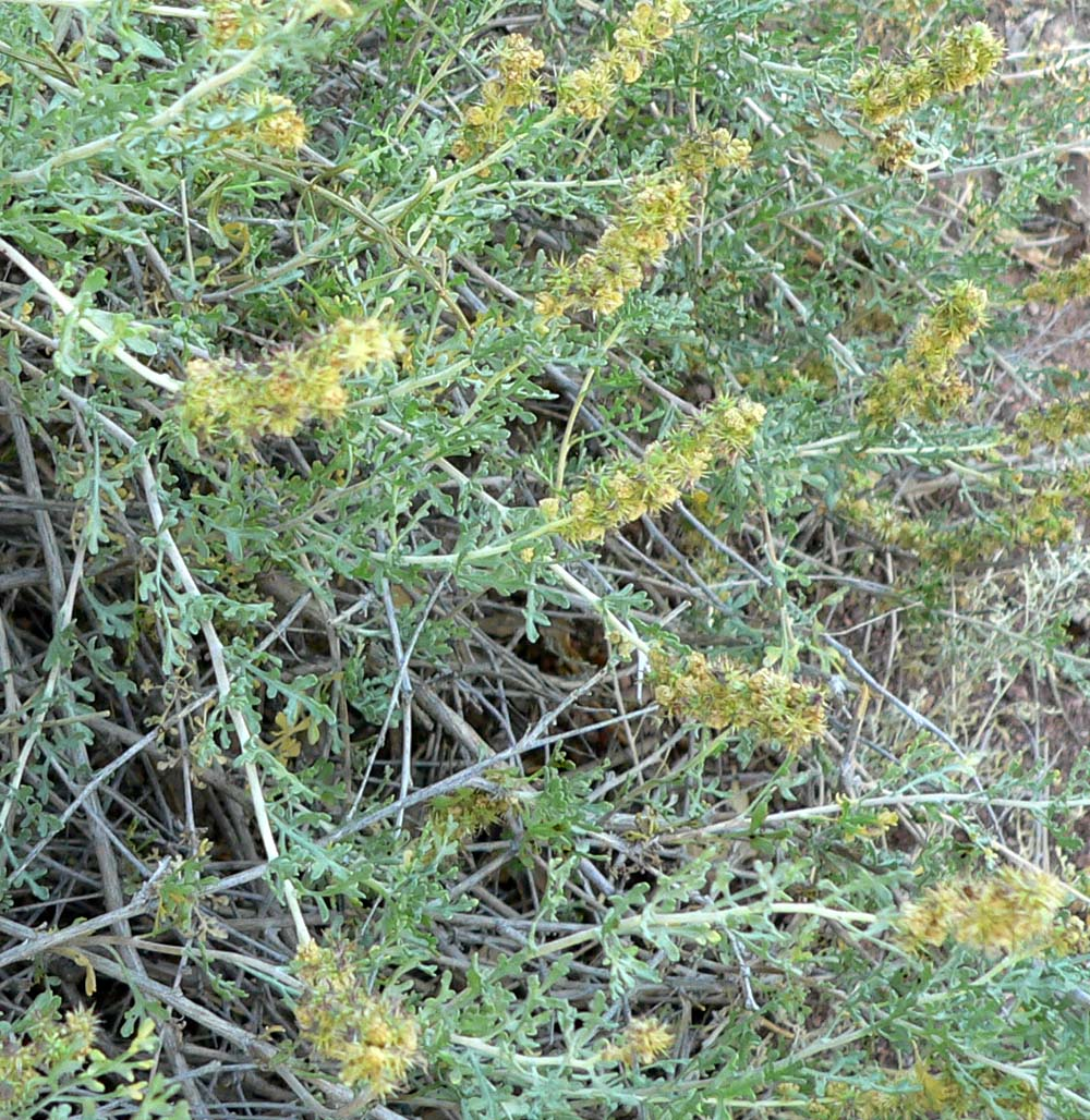 Photo of Ambrosia dumosa (white bur-sage) at the Springs Preserve garden in Las Vegas, Nevada